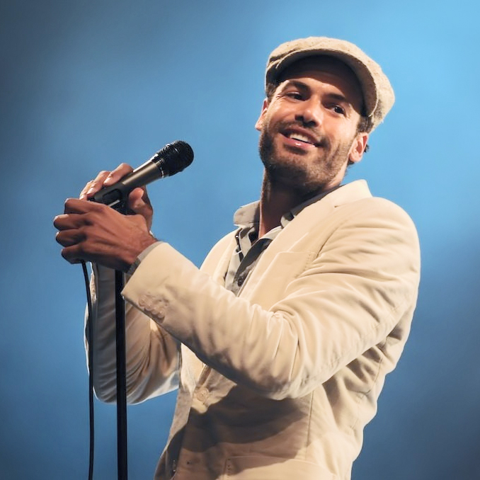 Alain Clark Vierdaagse Nijmegen 2008